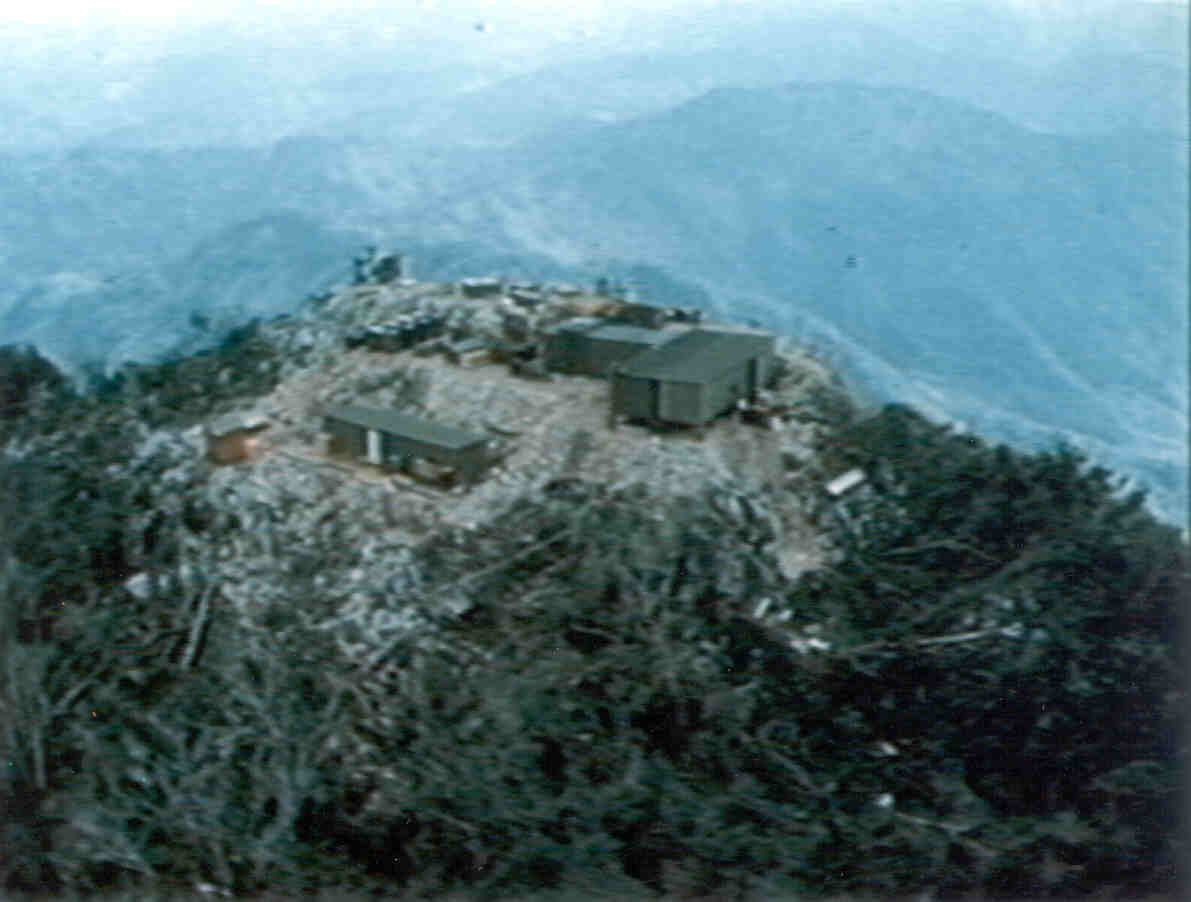 Lima Site 85 in Laos, see Battle of Lima Site 85.